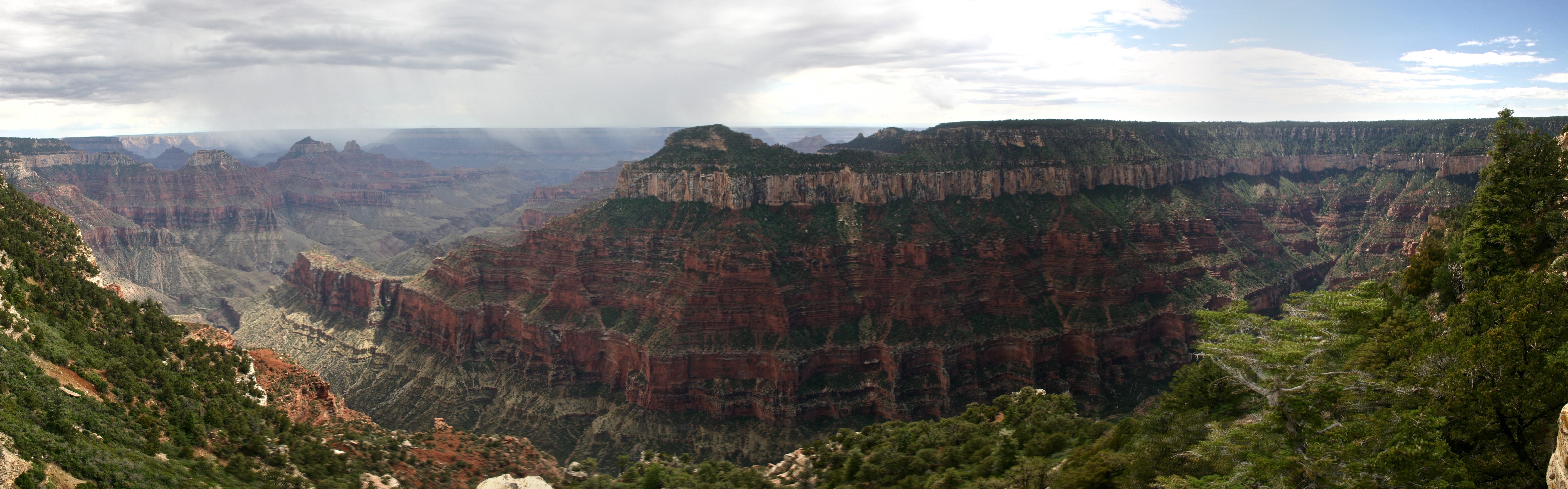 Grand Canyon North Rim Panorama; Stitched using AutoStitch via Calico.